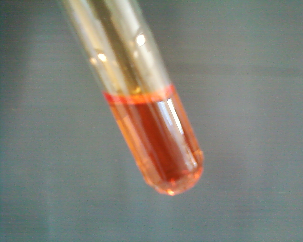 bromine water